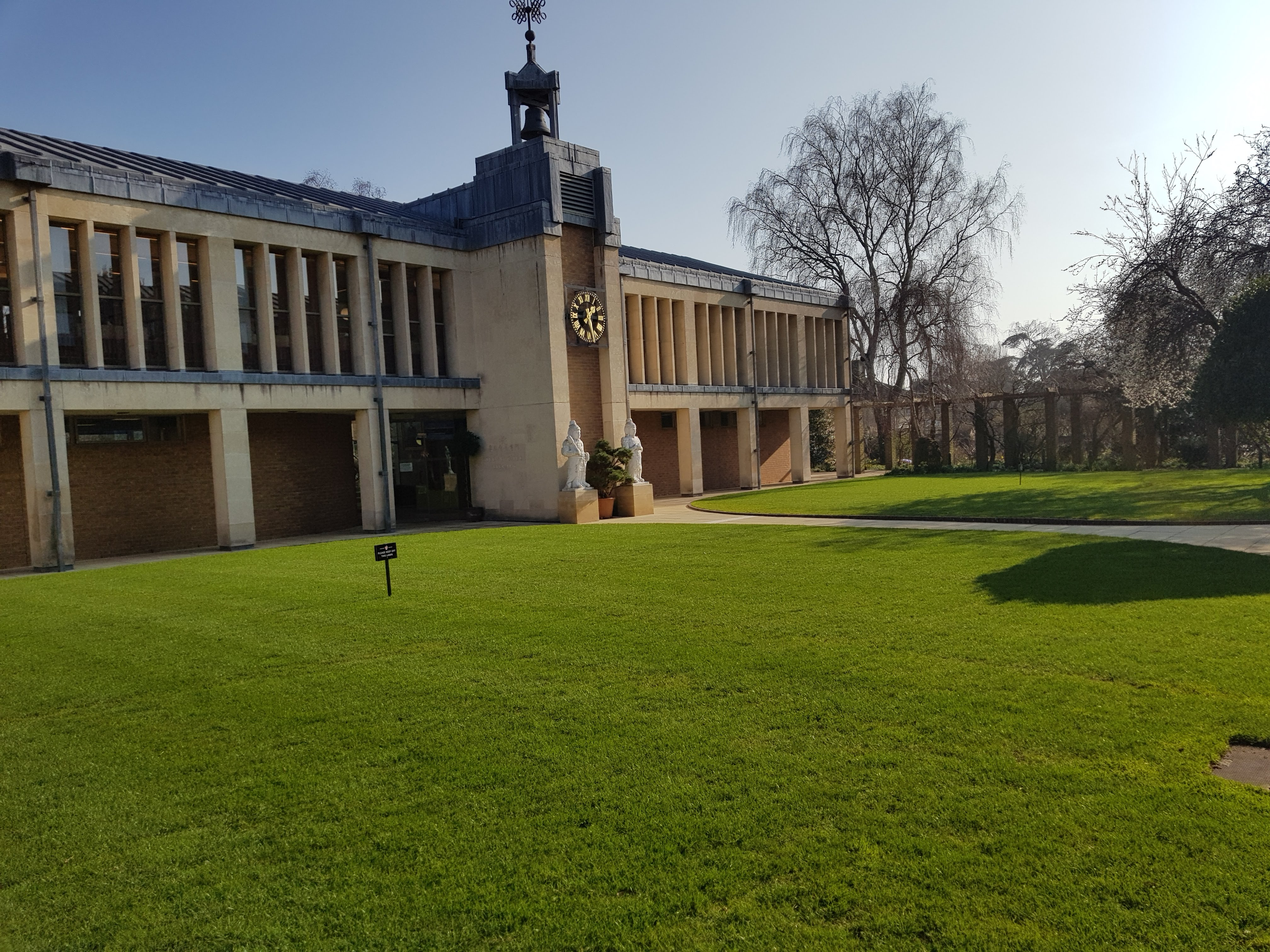 Wolfson College Lee Library entrance